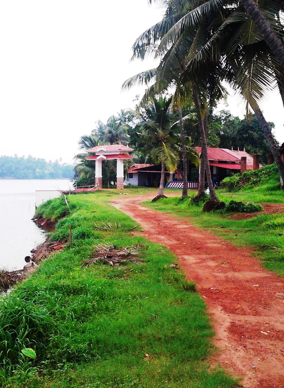 Koyas Busstop, Feroke, Calicut, Kerala, India.